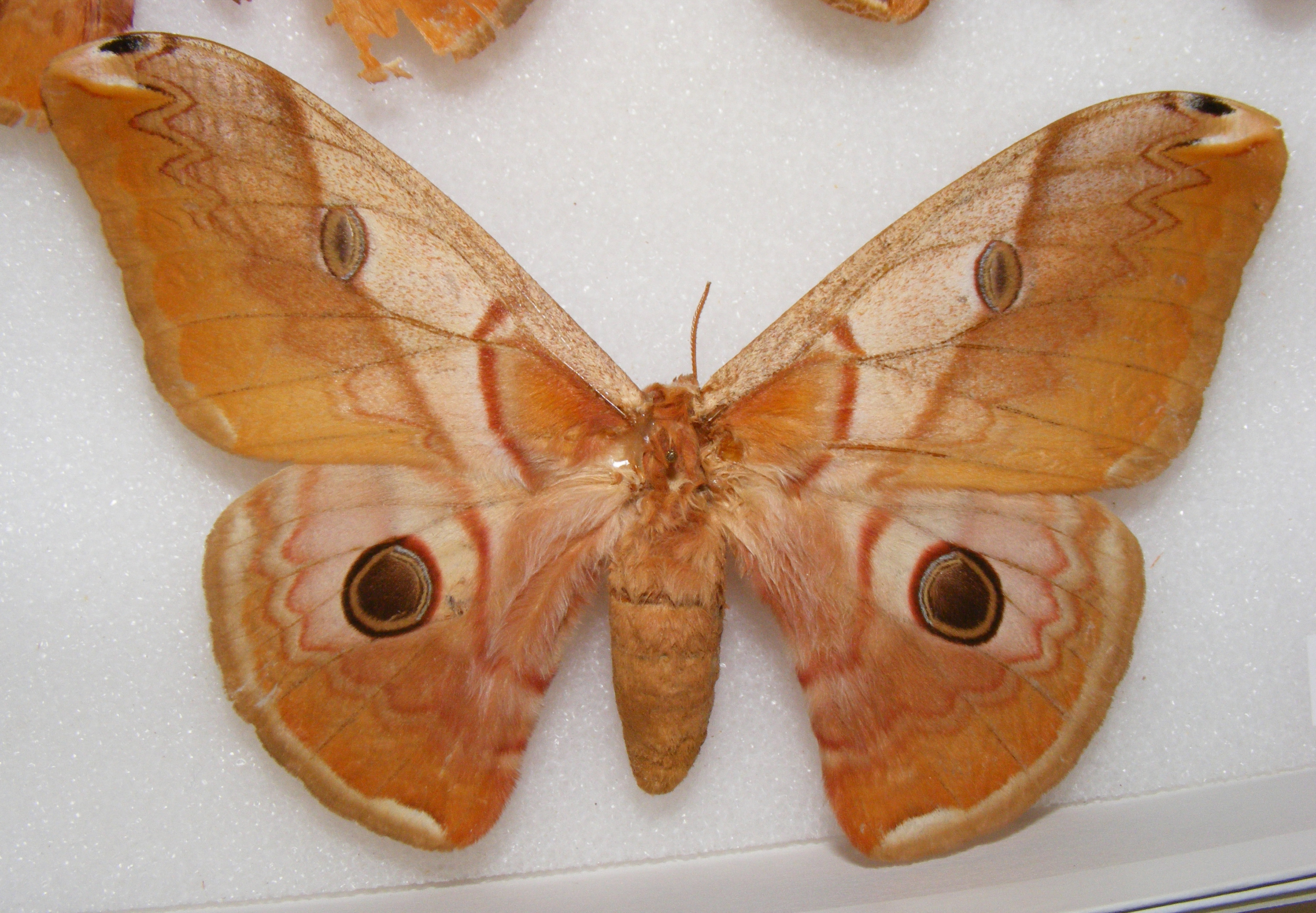 Caligula simla adult female from the Texas A&M University Insect Collection